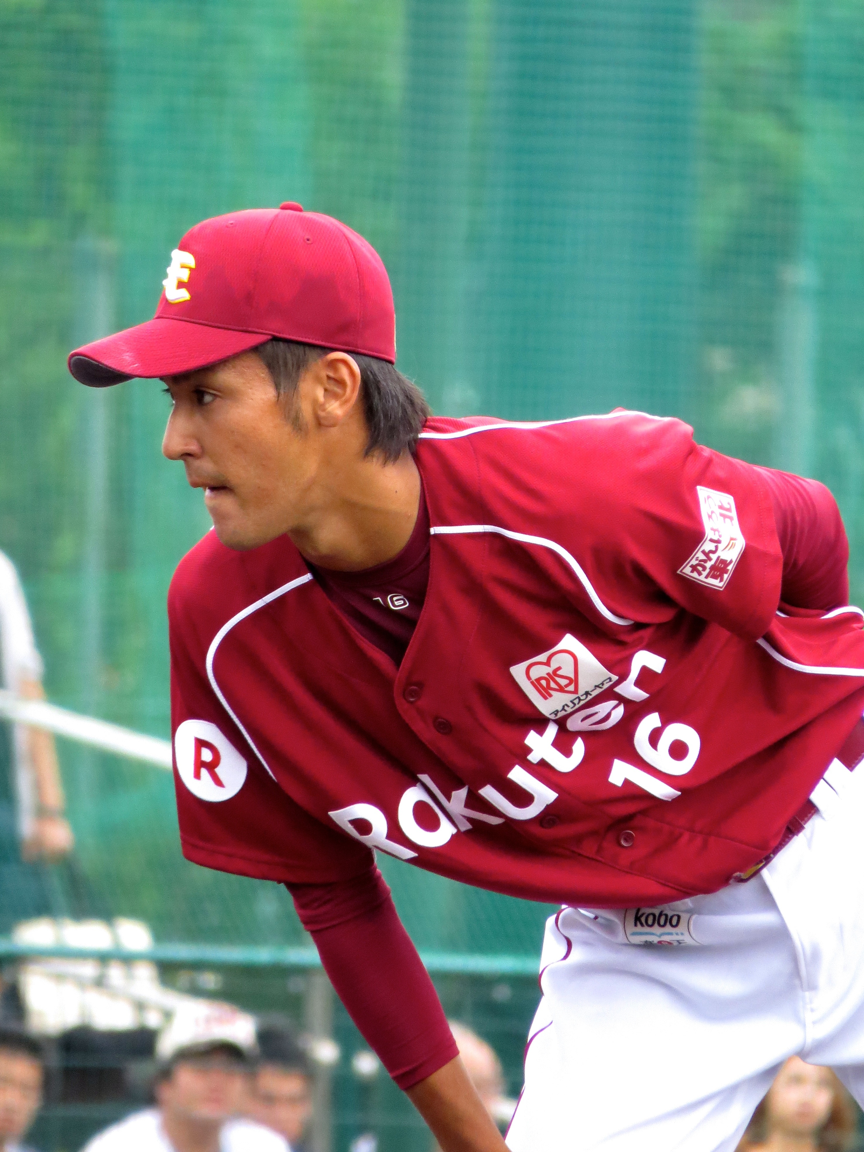 Yudai Mori, pitcher of the Tohoku Rakuten Golden Eagles, at Lotte Urawa Baseball Ground.